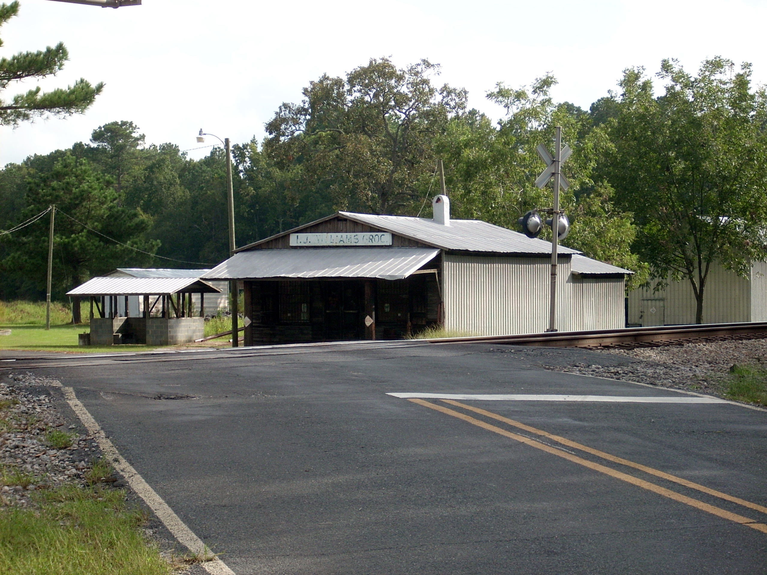 On old grocery store in Rex, North Carolina